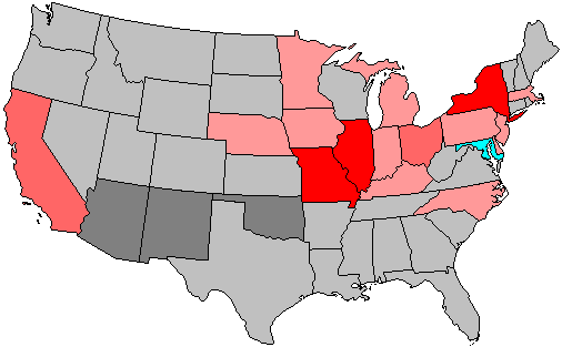 Summary of party change of U.S. house seats in the 1904 House election. Stripes indicate a tie between the gains of two or more parties. Legend: 6+ Democratic seat pickup 3-5 Democratic seat pickup 1-2 Democratic seat pickup 1-2 Republican seat pickup 3-5 Republican seat pickup 6+ Republican seat pickup 1-2 Populist seat pickup 3-5 Populist seat pickup Note: years ending in 2 may have inconsistent results due to redistricting.